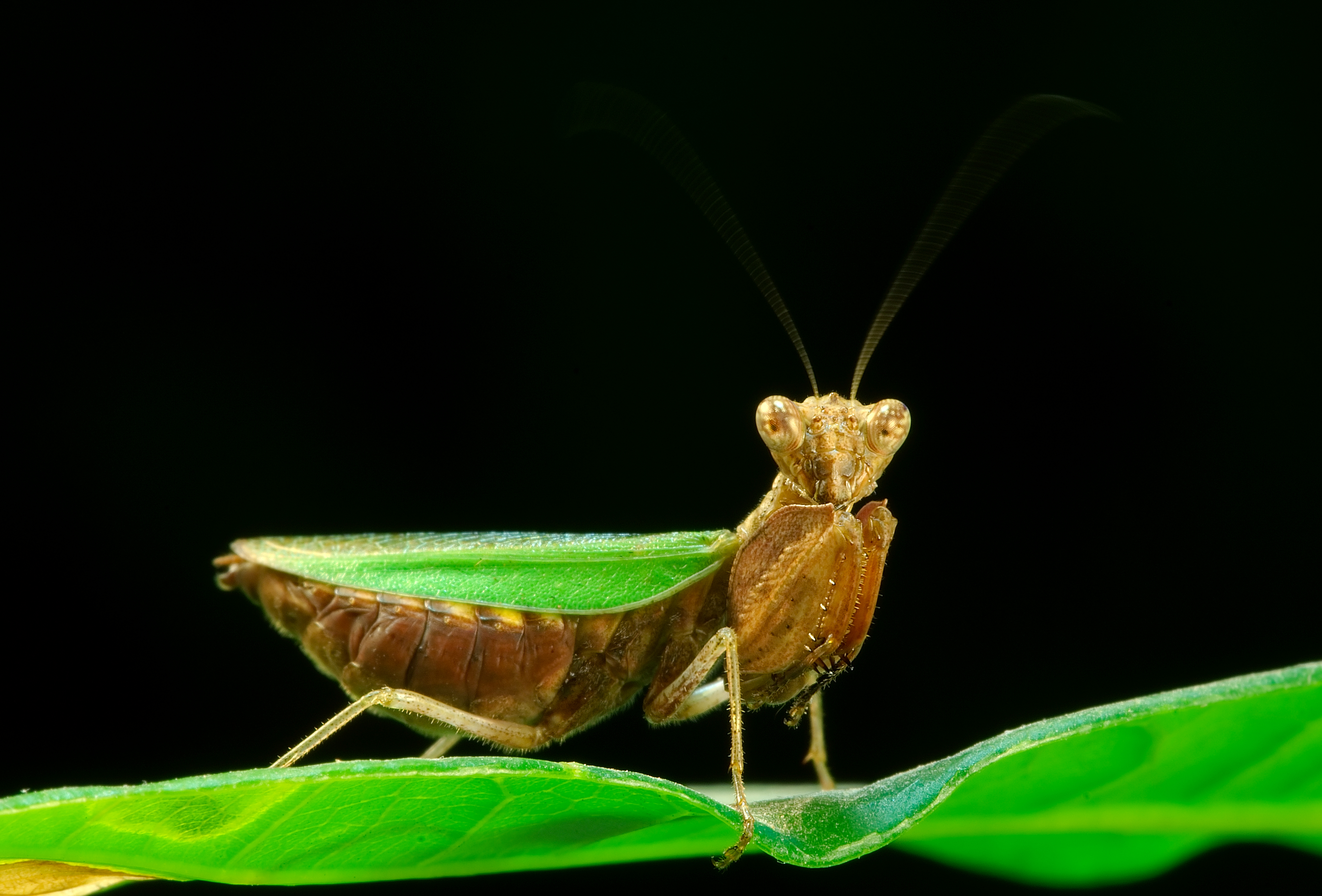 Indian mantis